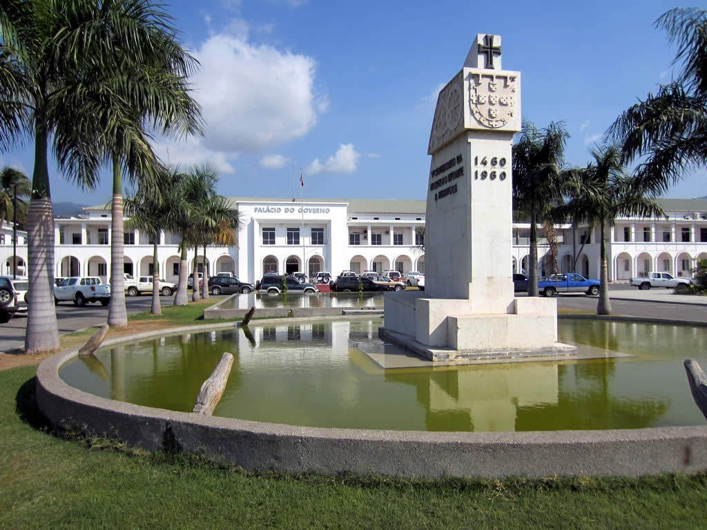 The Palacio do Governo faces the Dili waterfront.